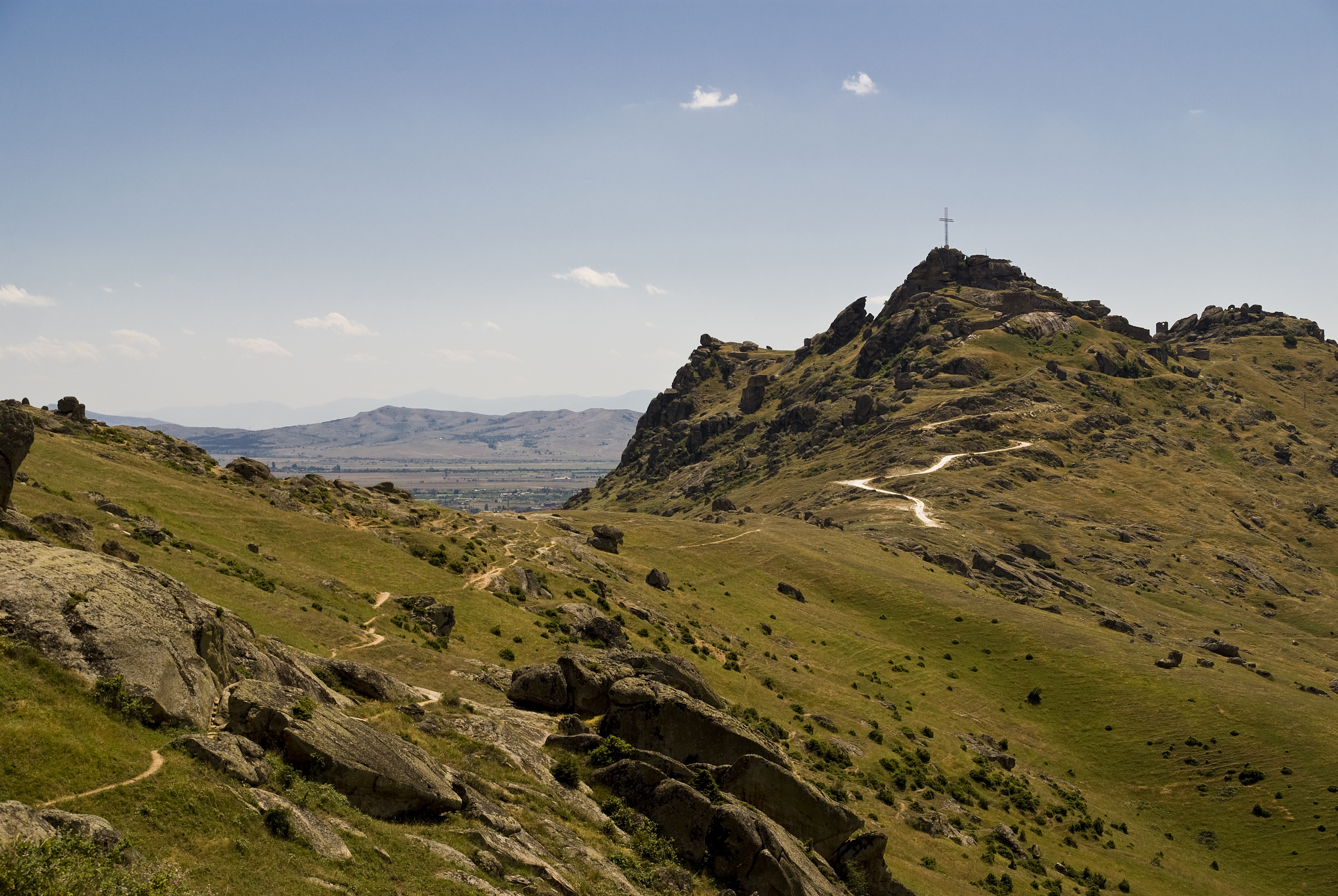 Ancient fortress of Markovi Kuli in the distance. Prilep, Macedonia